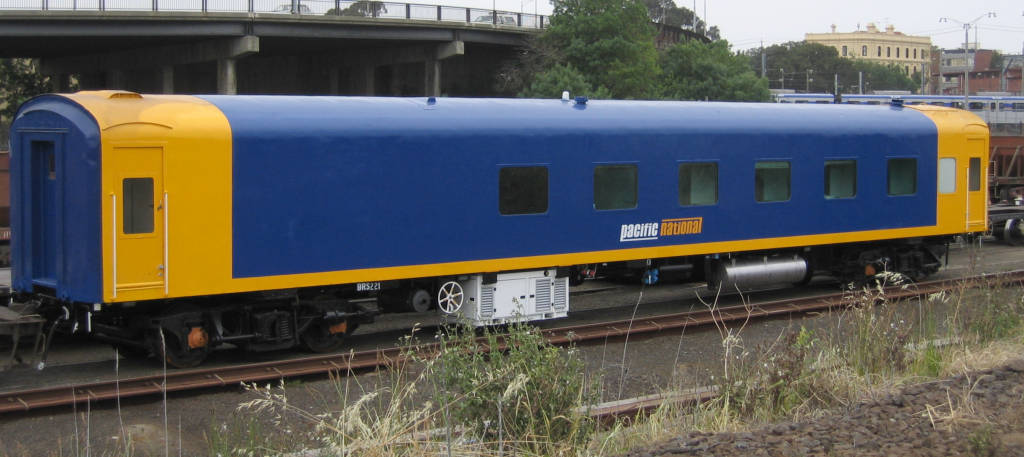 A Pacific National Crew car BRS 221 in Victoria, Australia converted from a S type carriage